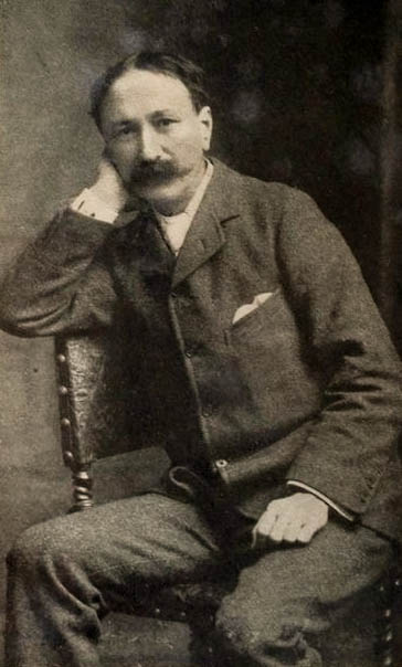 Photograph published as the frontispiece to the 1907 book by Morley Roberts